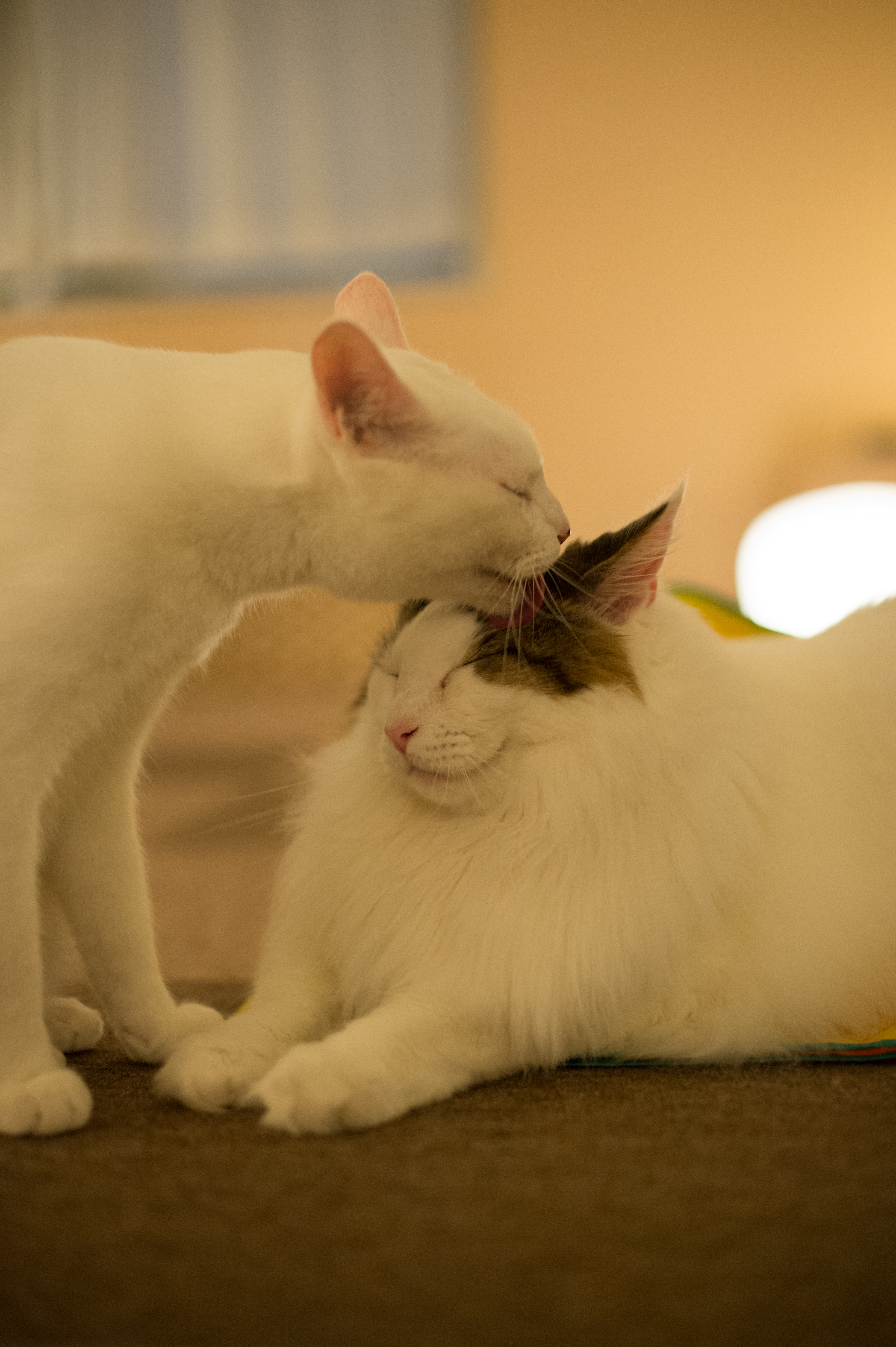 They are not a girlfriend or boyfriend, both of two are boys! Photographed at cat cafe "Nekorobi". The cat licking: Name: Pudding Gender: Male Kind: Mix The cat licked: Name: Haruki Gender: Male Kind: Norwegian Forest Cat 仲の良さそうなカップルのように見えますが、実は両方とも男の子です！ 猫カフェ「ねころび」で撮影しました。 なめてる方の猫さん情報: 名前: プリンくん 性別: 男の子 種類: Mix なめられてる方の猫さん情報： 名前: ハルキくん 性別: 男の子 種類: ノルウェイジャンフォレストキャット [ Nikon D4, Nikon AF-S NIKKOR 50mm f/1.4G, f/2.0, 1/100sec, ISO3200 ]